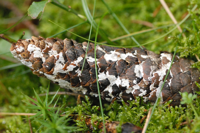 Athelia bombacina from Commanster, Belgium. If you think this is a different taxon, please contact James Lindsey.